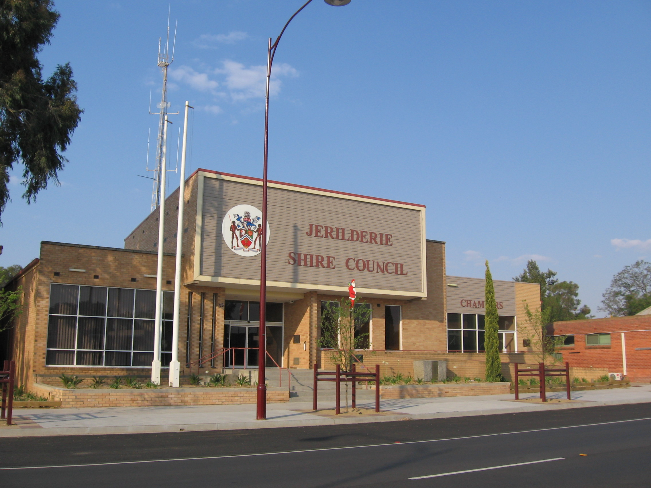 Jerilderie Shire Council offices, Jerilderie, New South Wales